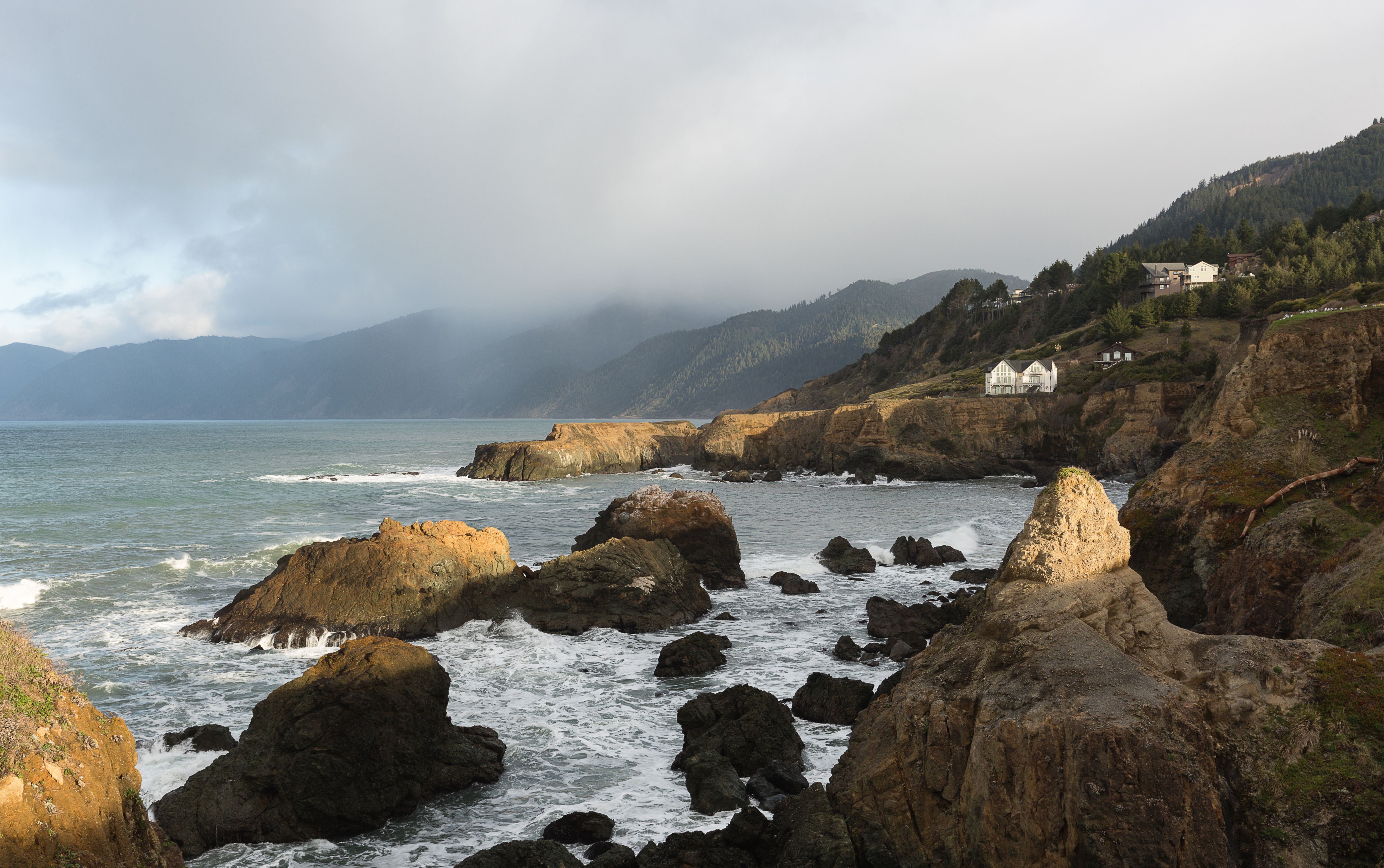 Coastline of the “Lost Coast” – the most undeveloped and remote portion of the California coast – as seen from Shelter Cove, California